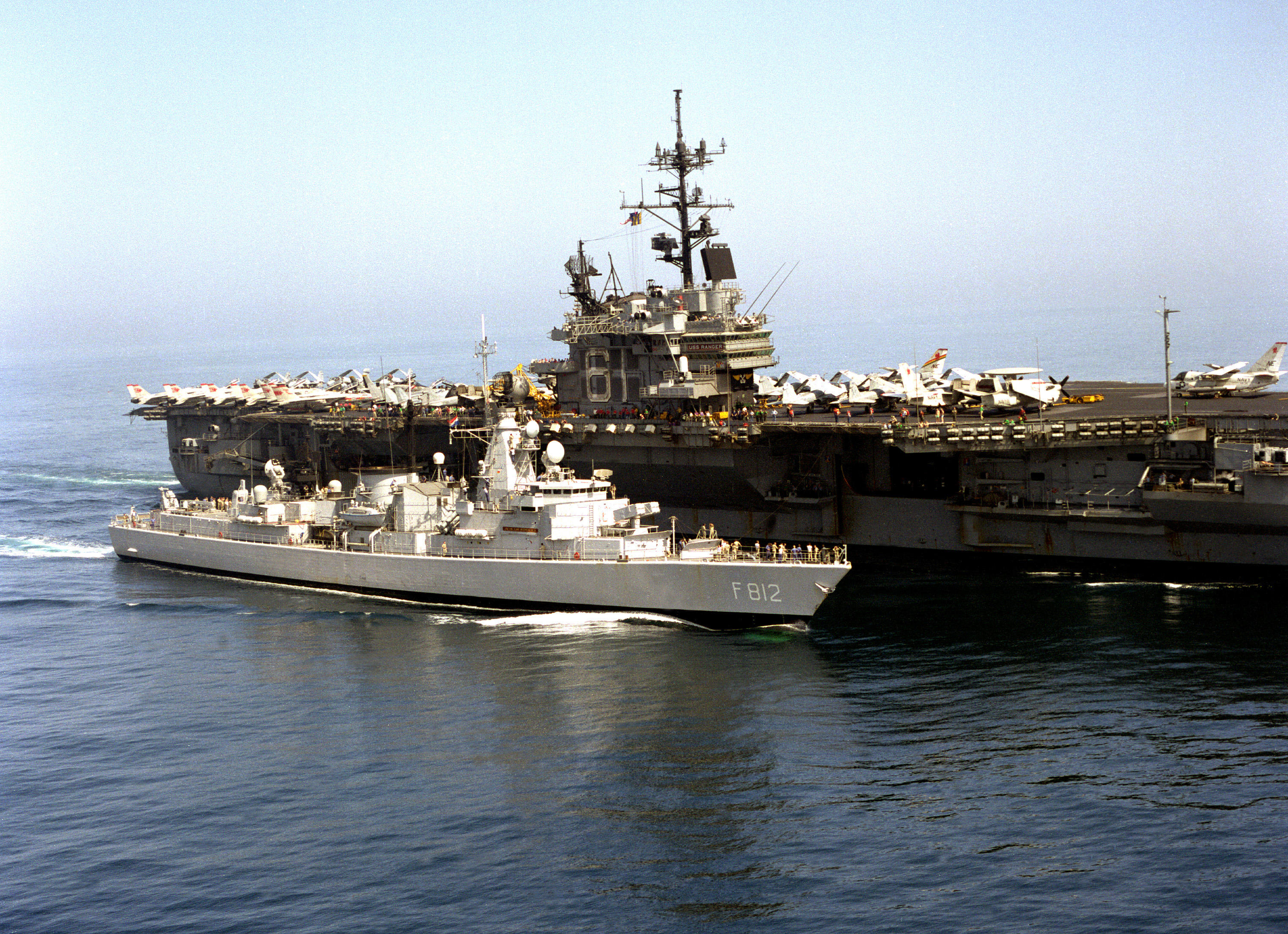 The Dutch frigate F812 Jacob Van Heemskerck operates alongside the aircraft carrier USS Ranger (CV-61) while participating in an underway replenishment during Operation Desert Shield.